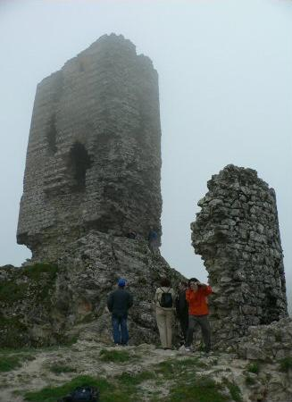 Chiraq-qala fortress in Azerbaijan